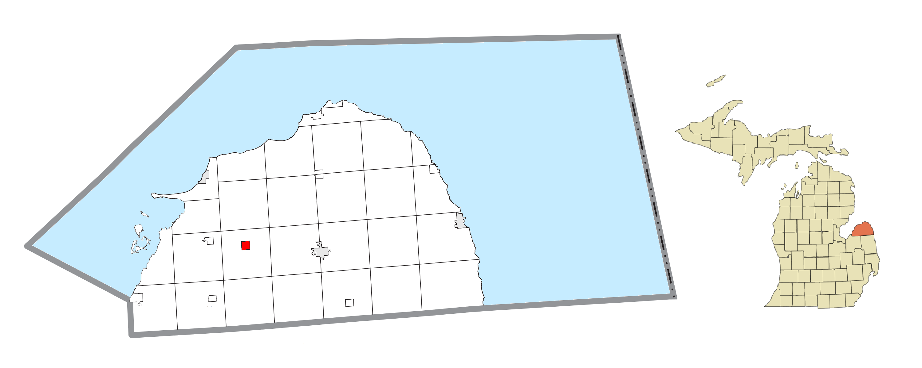 Elkton, MI